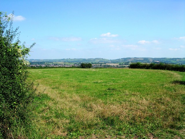 Longwell Green Easterly views towards Oldland Photo is taken at a stile on a public footpath junction in the corner of three fields with a view east across a field towards Oldland